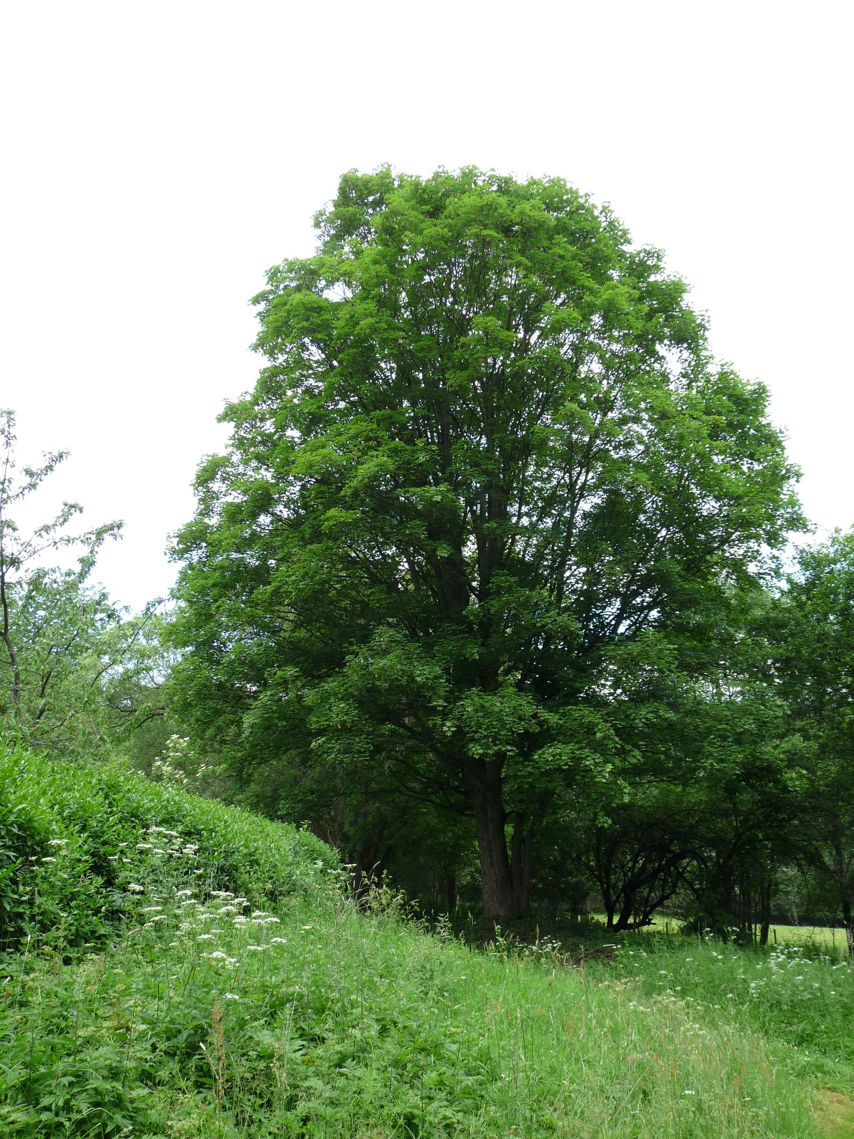 Sycamore maple in the village of Kříženec, part of the town of Hartmanice, Klatovy District, Plzeň Region, Czech Republic